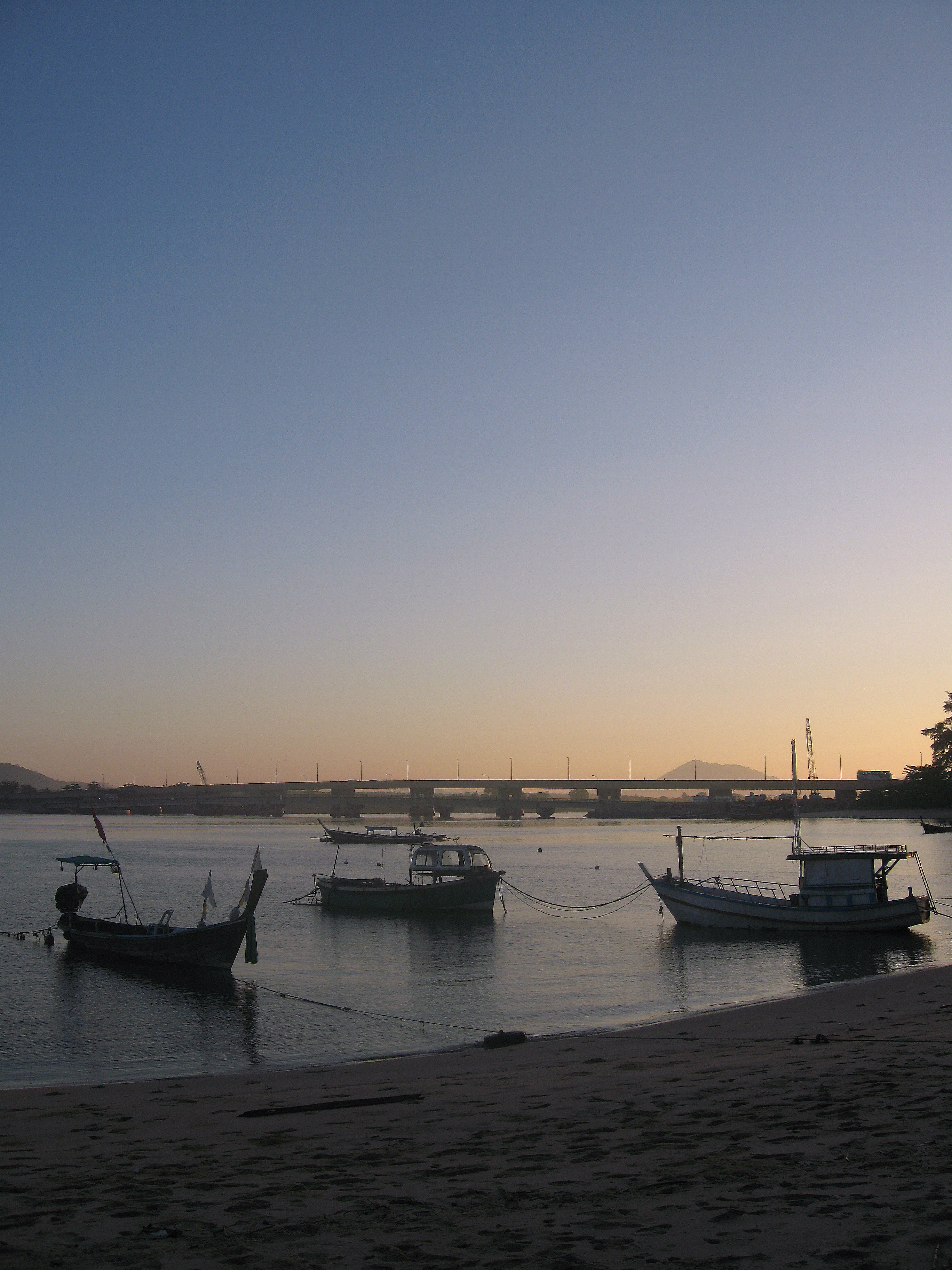 Near Sarasin bridge